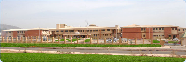 Primus International Superspeciality Hospital, Karu Abuja, Nigeria